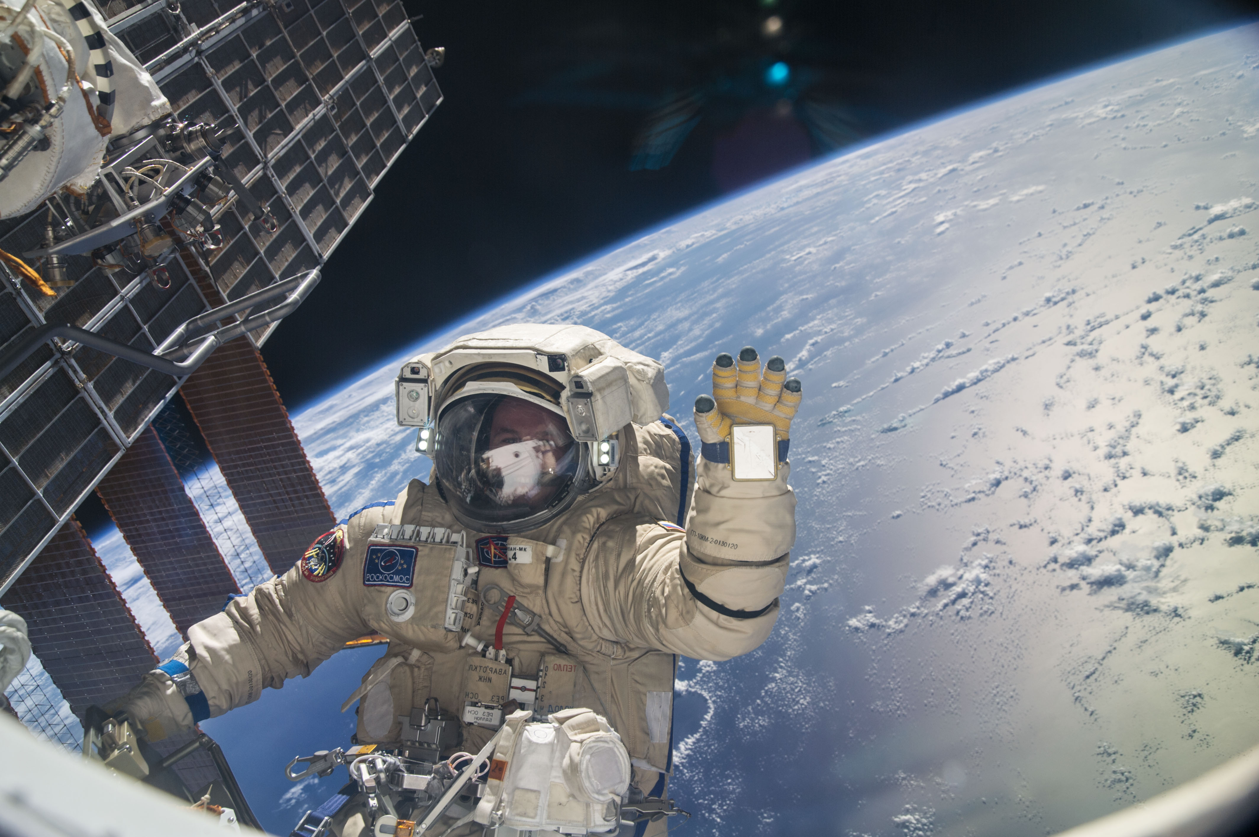 Russian cosmonaut Sergey Ryazanskiy, Expedition 37 flight engineer, attired in a Russian Orlan spacesuit, is pictured during a session of extravehicular activity (EVA) in support of assembly and maintenance on the International Space Station. During the five-hour, 50-minute spacewalk, Ryazanskiy and Russian cosmonaut Oleg Kotov (out of frame) continued the setup of a combination EVA workstation and biaxial pointing platform that was installed during an Expedition 36 spacewalk on Aug. 22. Earth's horizon and the blackness of space provide the backdrop for the scene.